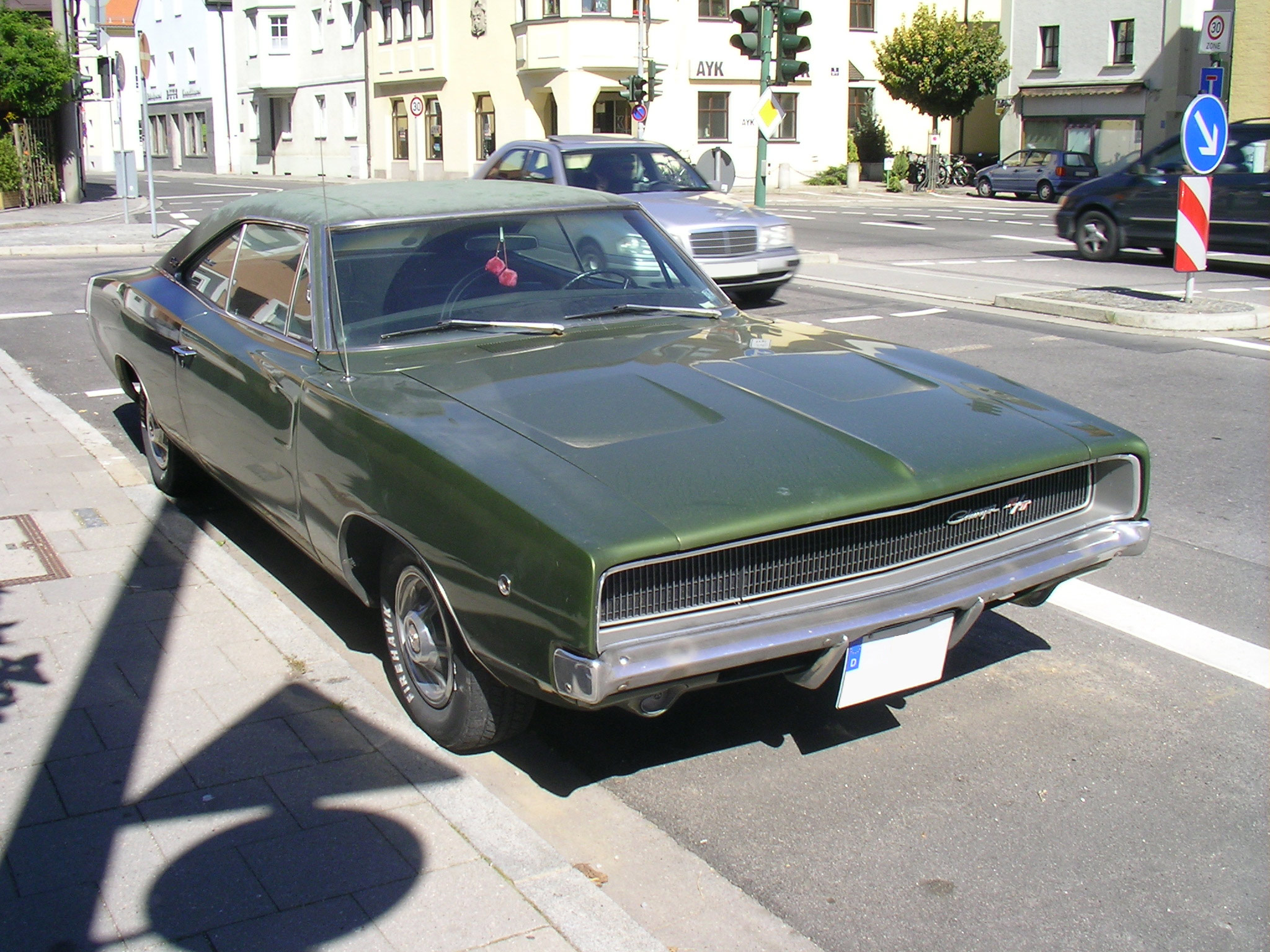 Dodge Charger R/T 1968 Front